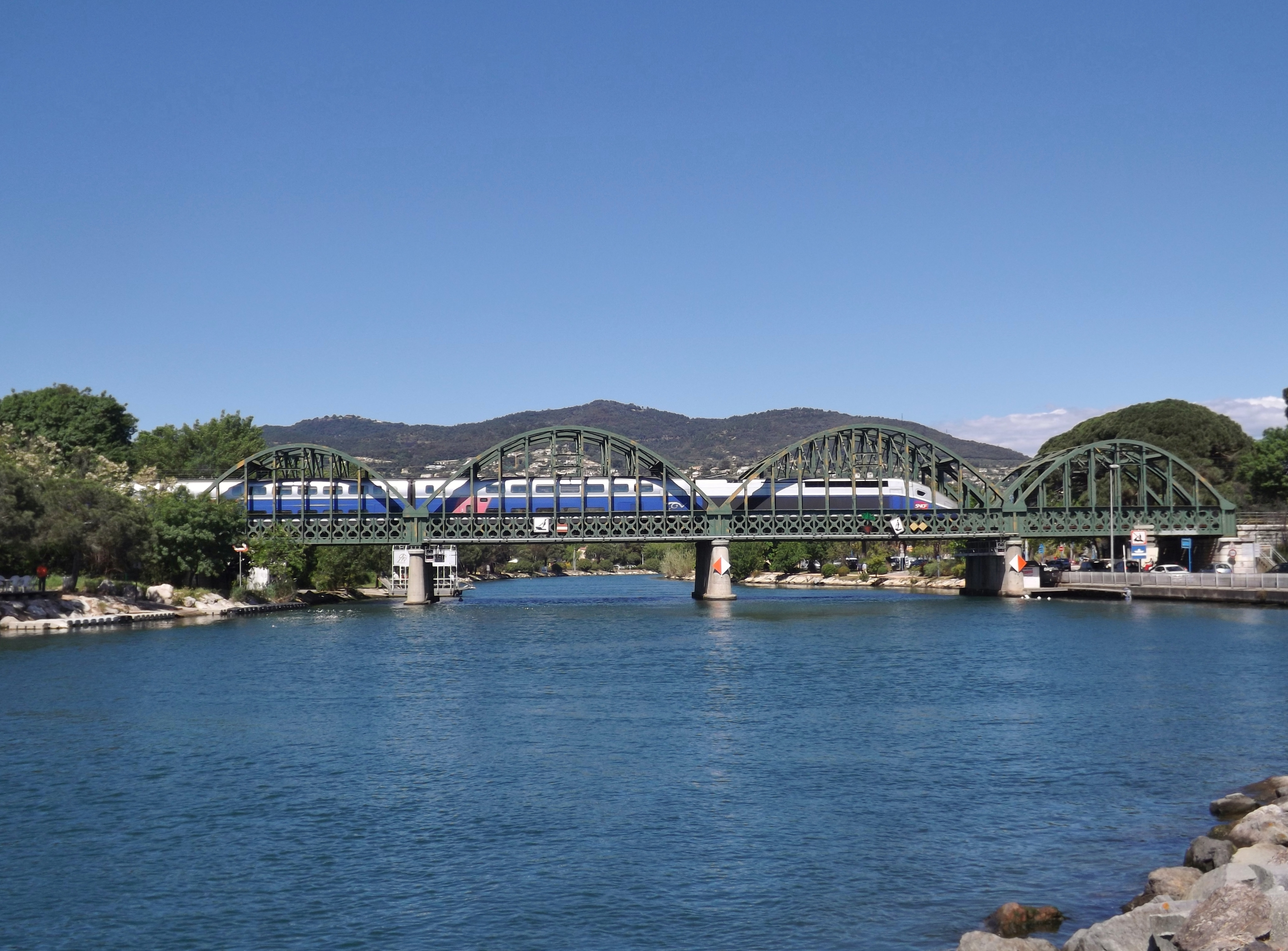 Sight of the railway bridge crossing the river Siagne in Mandelieu-la-Napoule, near Cannes, in Alpes-Maritimes, France.